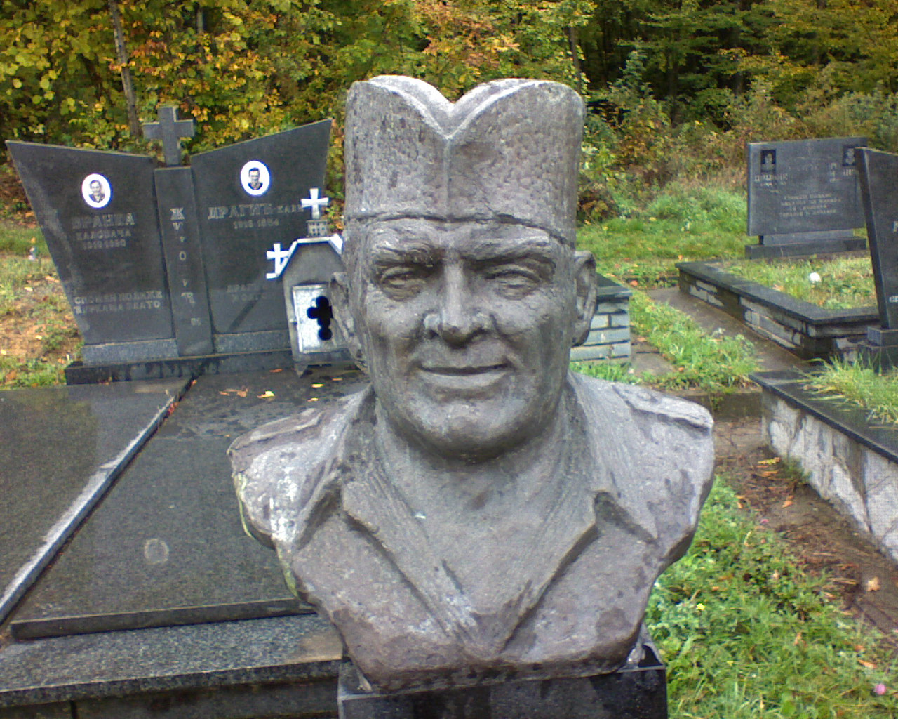 Bust of Desimir Žižović in Gornji Branetići, near Gornji Milanovac